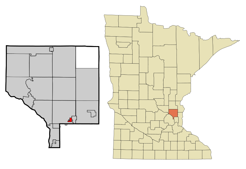 This map shows the incorporated and unincorporated areas in Anoka County, highlighting Lexington in red. This file has been updated to reflect the recent incorporation of new municipalities.